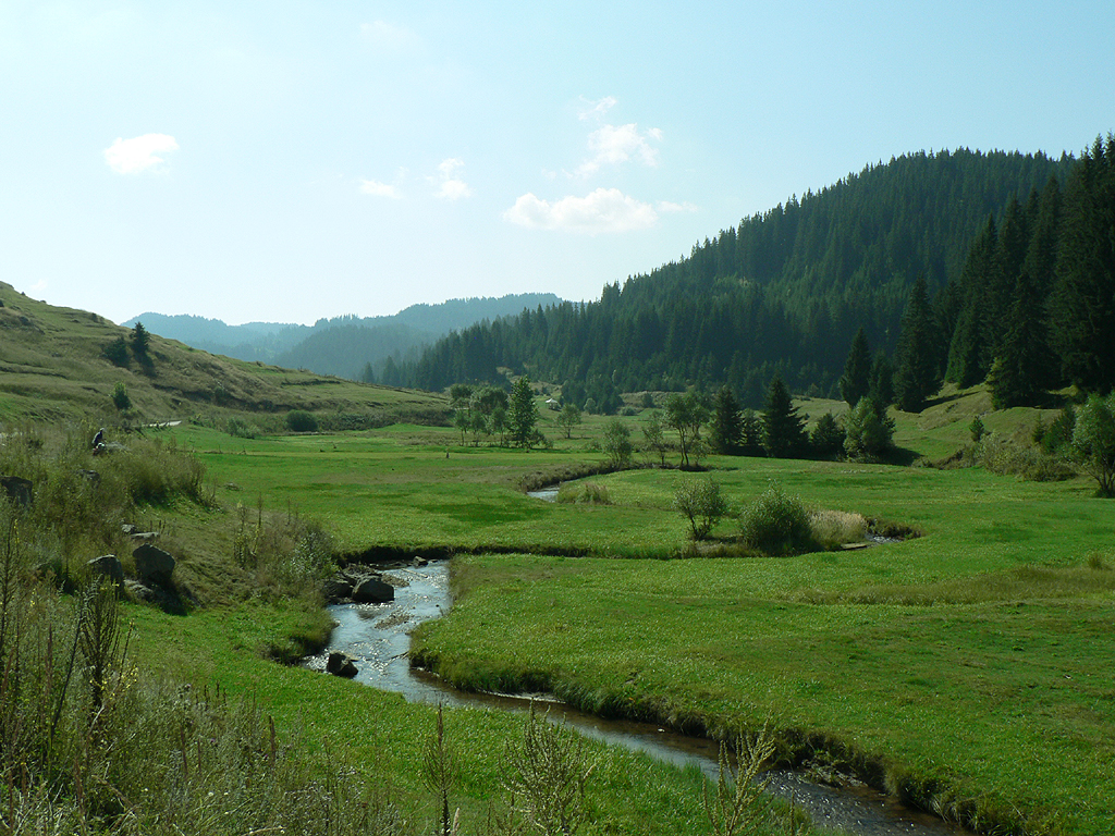 Bujnovo river